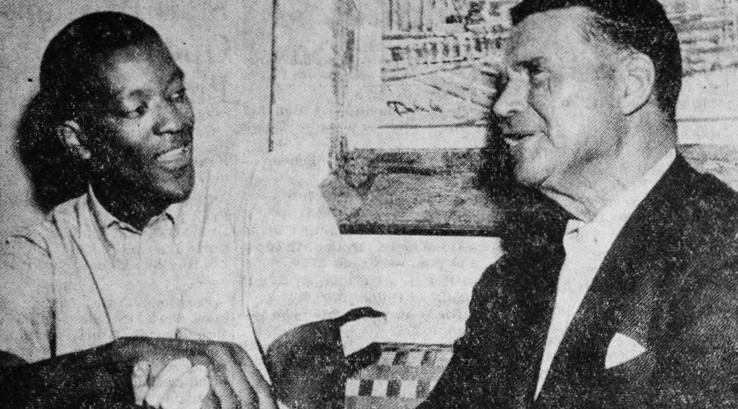 Basketball player Bill McGill (left) shakes hands with Chicago Packers general manager Frank Lane (right) in May 1962. McGill had just signed a contract to play for the Packers in the National Basketball Association.